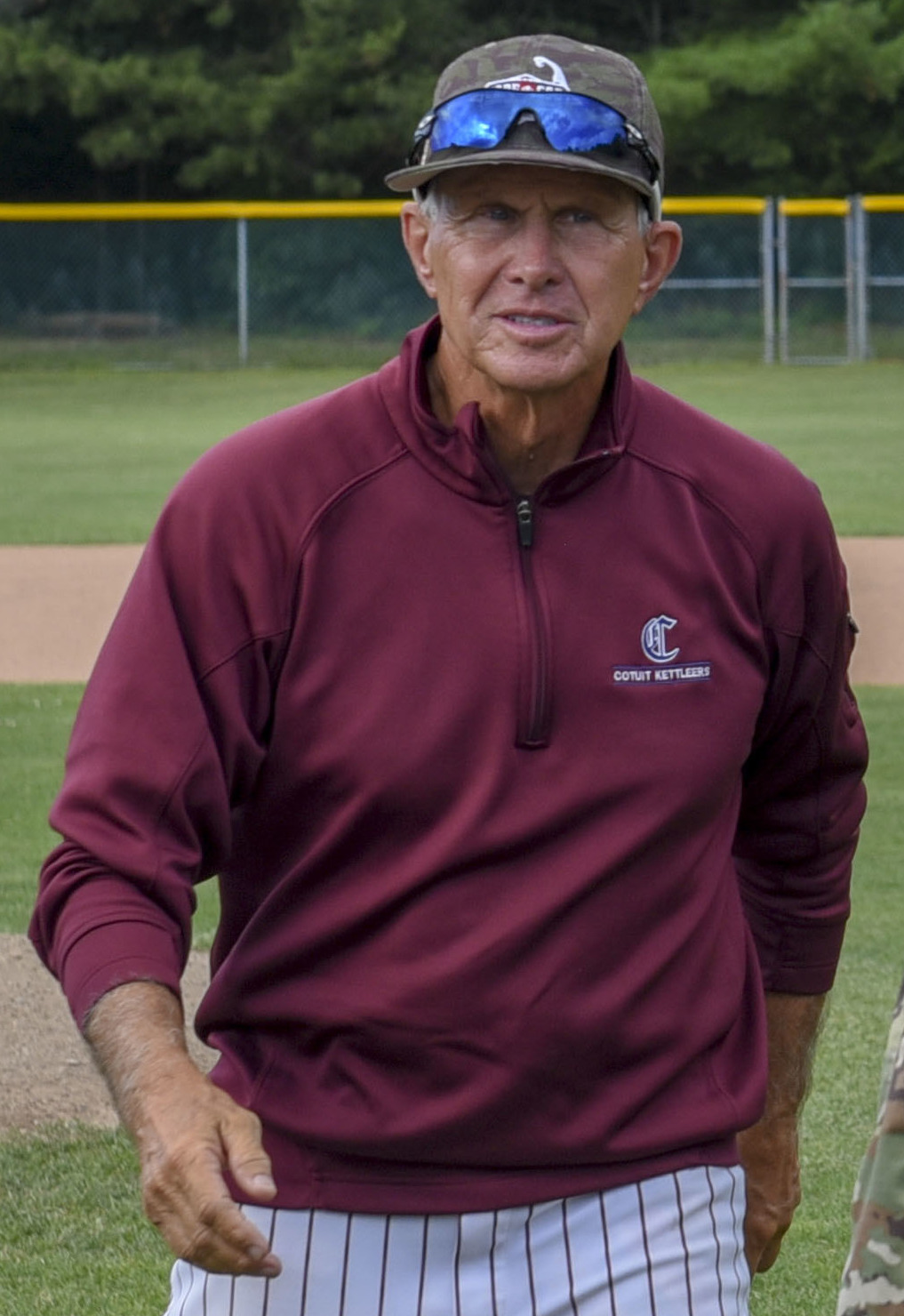 102nd Intelligence Surveillance and Reconnaissance Group Commander Col. Sean D. Riley threw out the ceremonial first pitch at a Cape Cod Baseball League game between the Cotuit Kettleers and Harwich Mariners on July 12, 2019 at Lowell Park in Cotuit, Massachusetts. The Cotuit Kettleers’ annual “Heroes in the Park” event honors active and retired military personnel. Posting the colors for the game day event was the Otis Air National Guard Base honor guard.